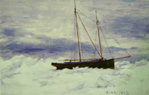 Post boat in pack-ice